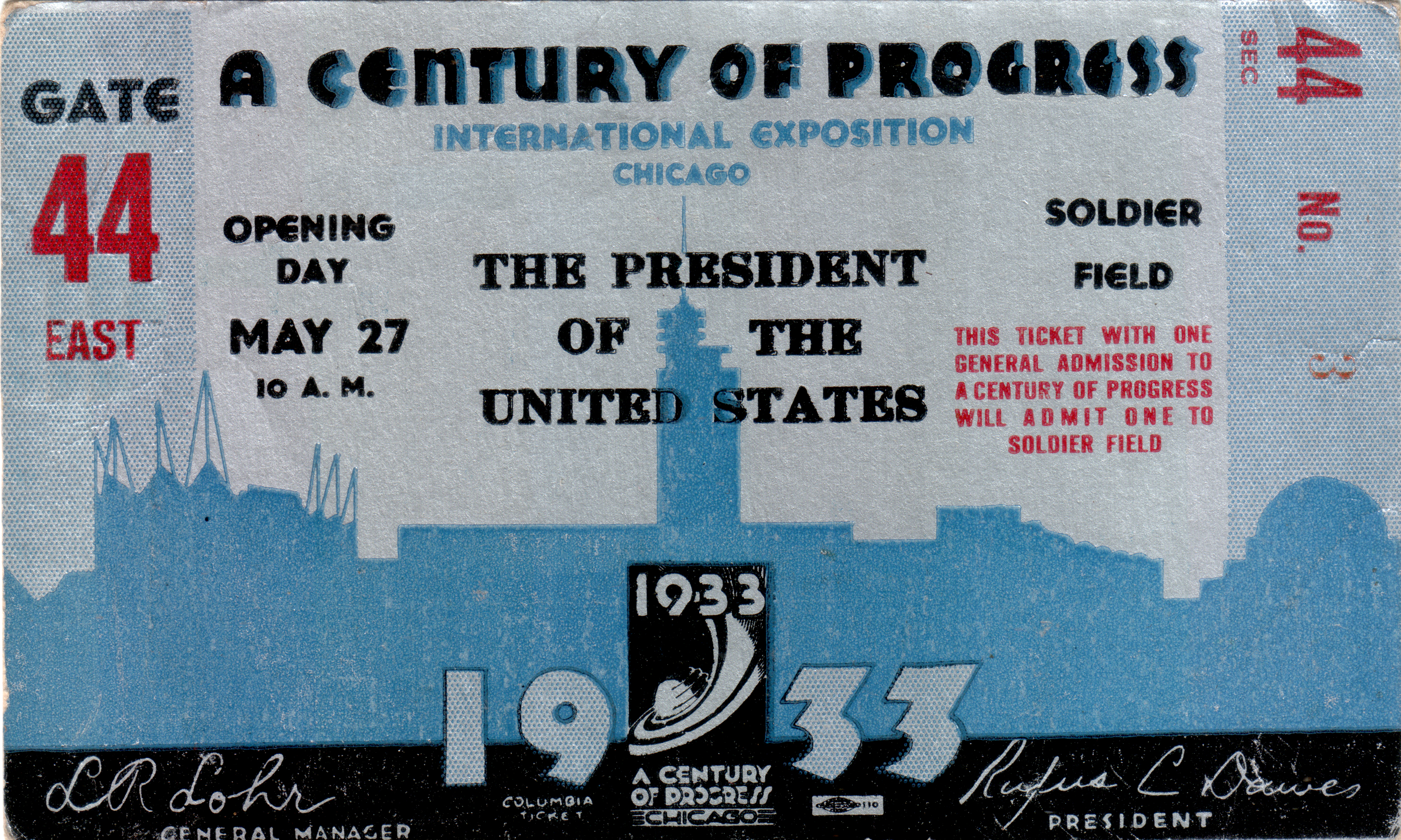 Ticket to the Opening Day Ceremonies at Soldier Field, Chicago, IL, for the 1933 Century of Progress International Exposition, May 27, 1933. (While this ticket indicates that President Franklin Roosevelt would open the Exposition, he was unable to attend and was instead represented by Postmaster General James Farley.)